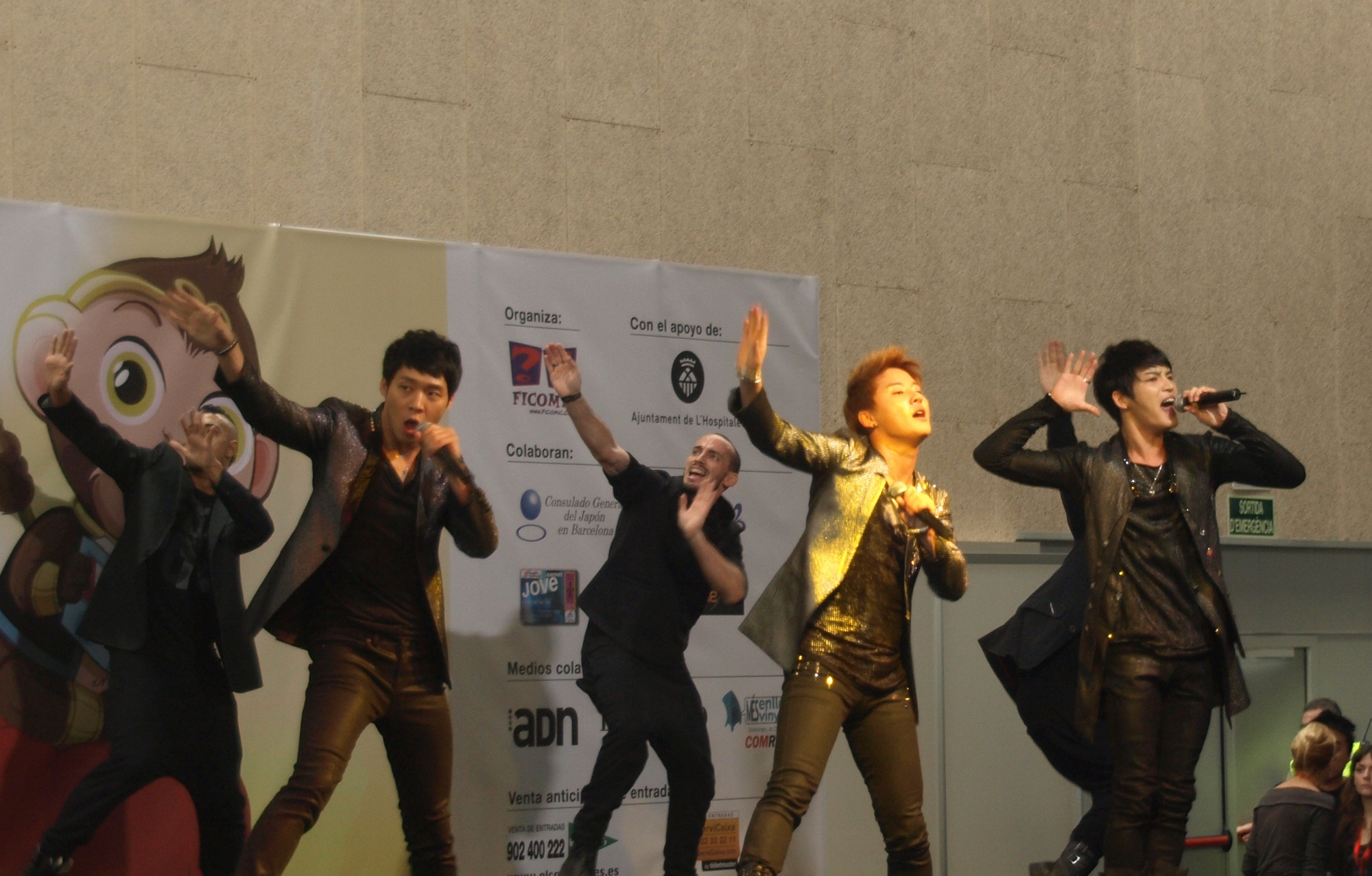 JYJ is a three member pop group, formed by three former members of the South Korean boyband TVXQ: Jaejoong, Yoochun and Junsu.